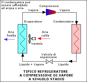 Image:Refrigeration.jpg with JPEG artifacts removed by a four-line Python program. (Hooray for python-imaging!) :This is a diagram of a Vapor-compression Refrigeration system. - Mbeychok 18:57, 20 September 2007 (UTC)